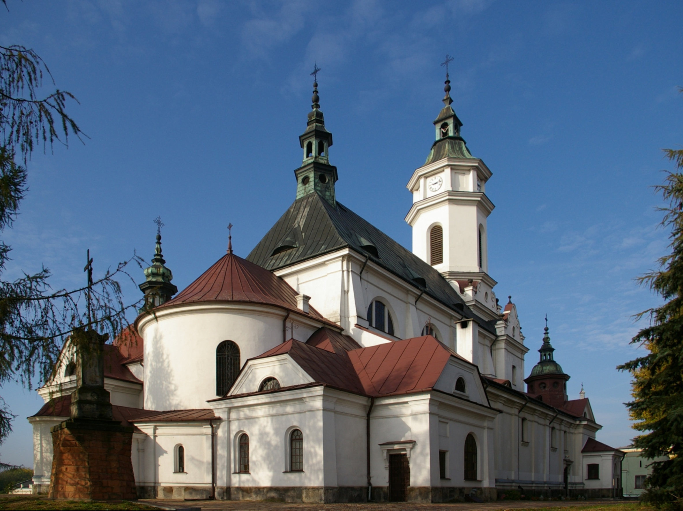 Saint Michael's Church in Ostrowiec Świętokrzyski